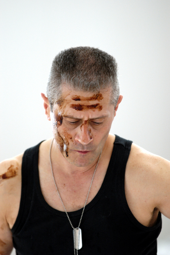 Performance Artwork